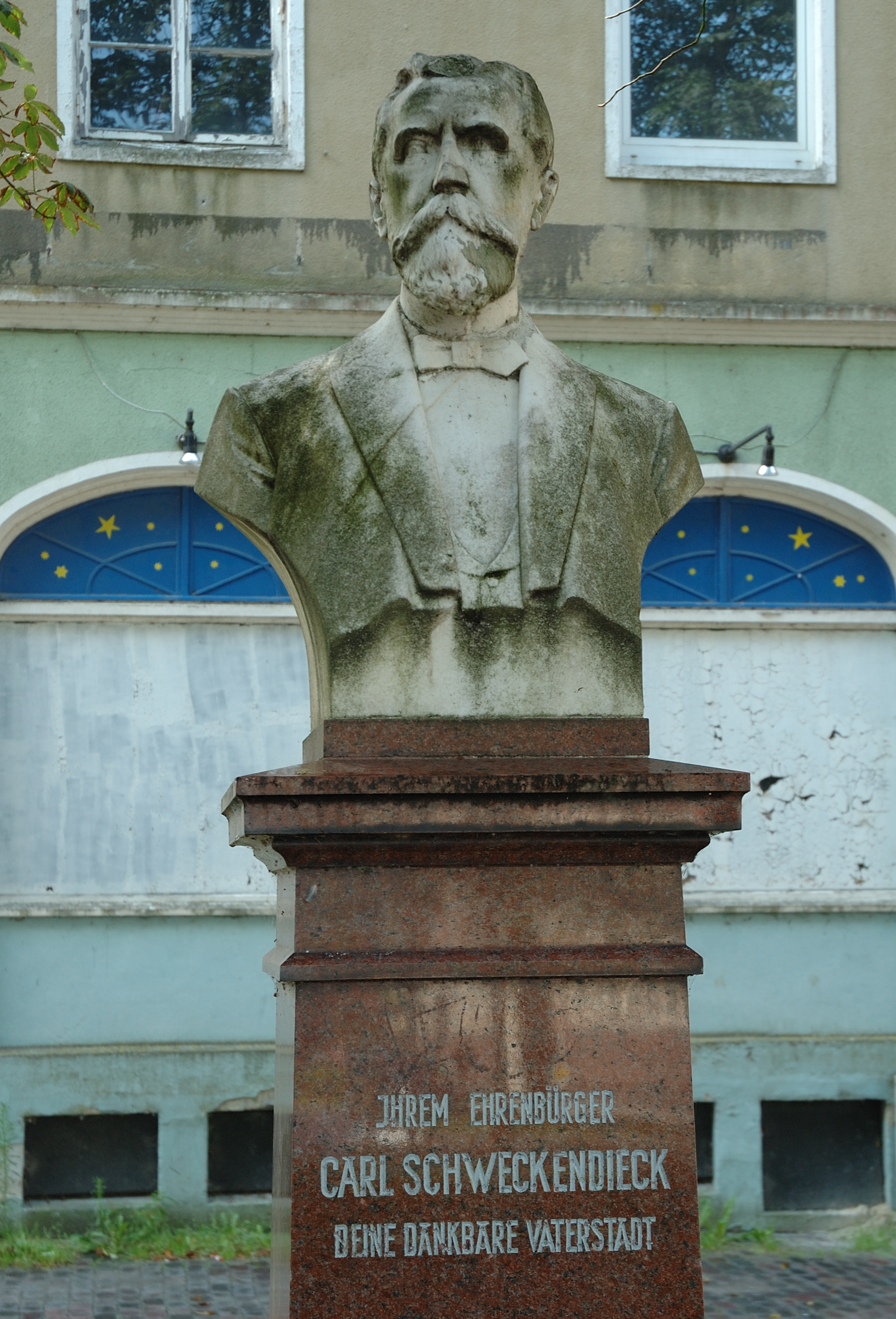 Bust of Carl Schweckendieck (1843-1906), Emden. He was a jurist and politician who helped to extend Emden harbor. Translation of the text on the pedestal: "To the Honorary Citizen Carl Schweckendieck. Your thankful hometown."